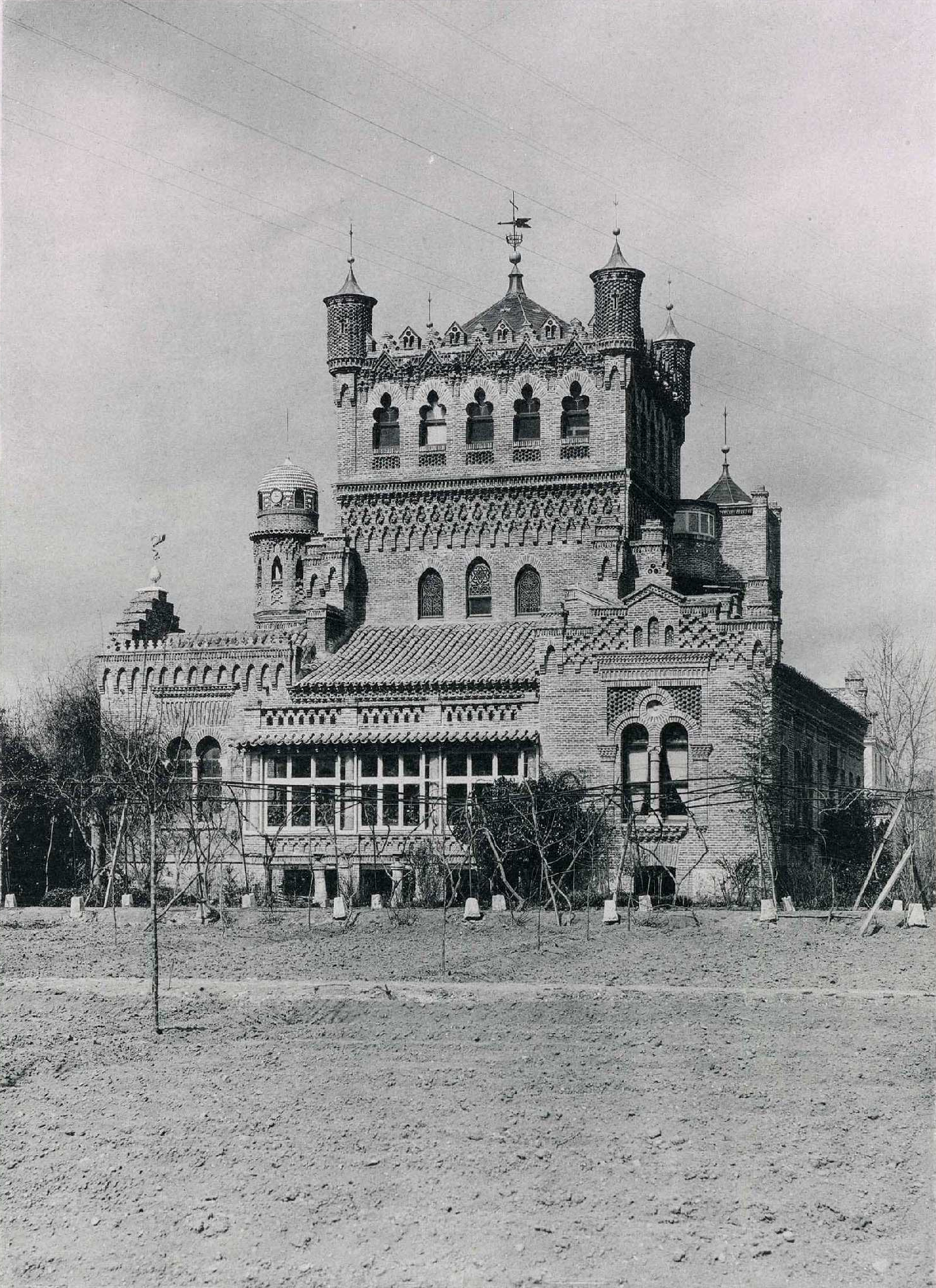 Laredo Palace's at Alcalá de Henares (Community of Madrid - Spain). Neogothic-Mudejar building built in 1884.